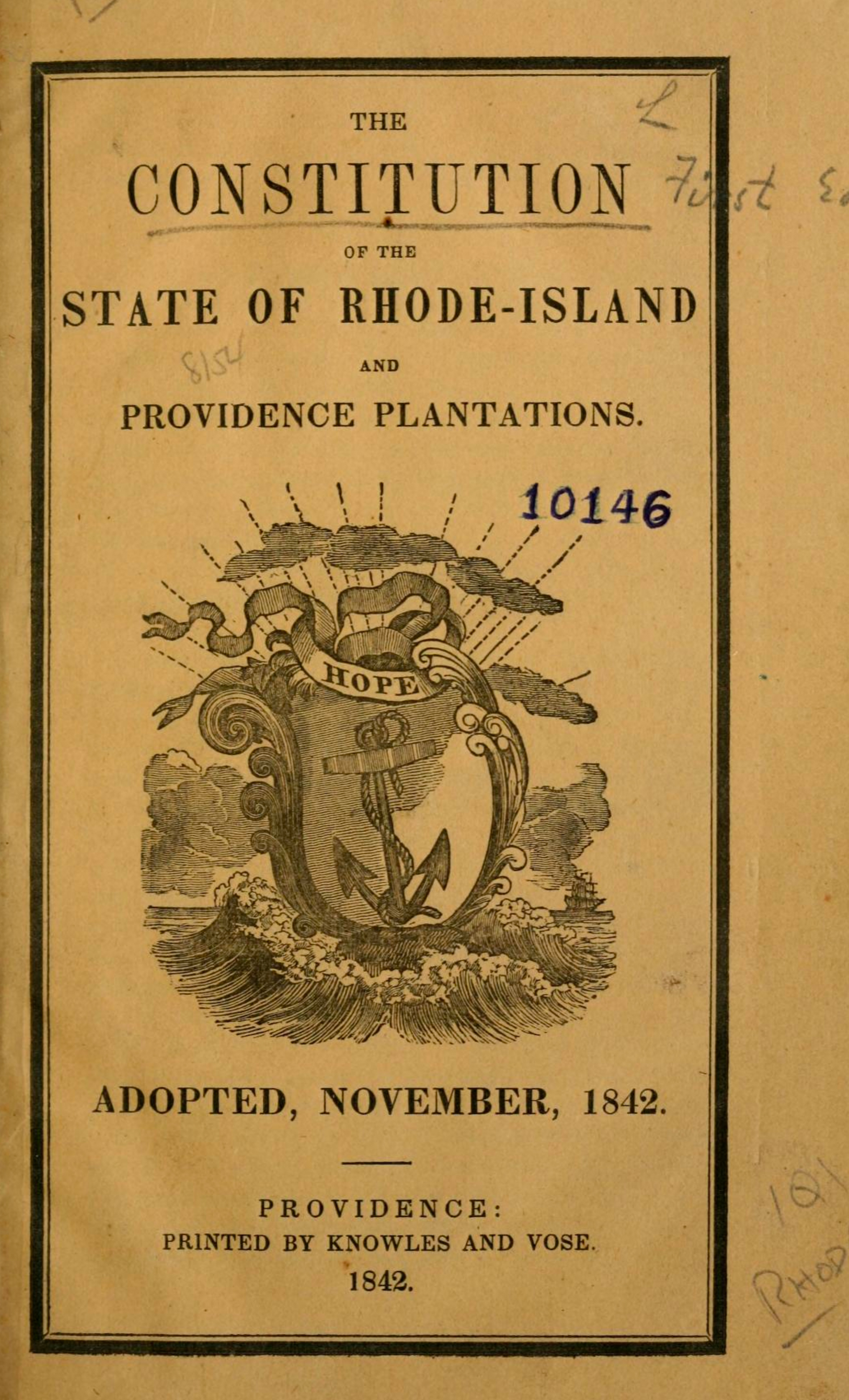 The constitution of the state of Rhode-Island and Providence Plantations : as adopted by the convention, assembled at Newport, September, 1842